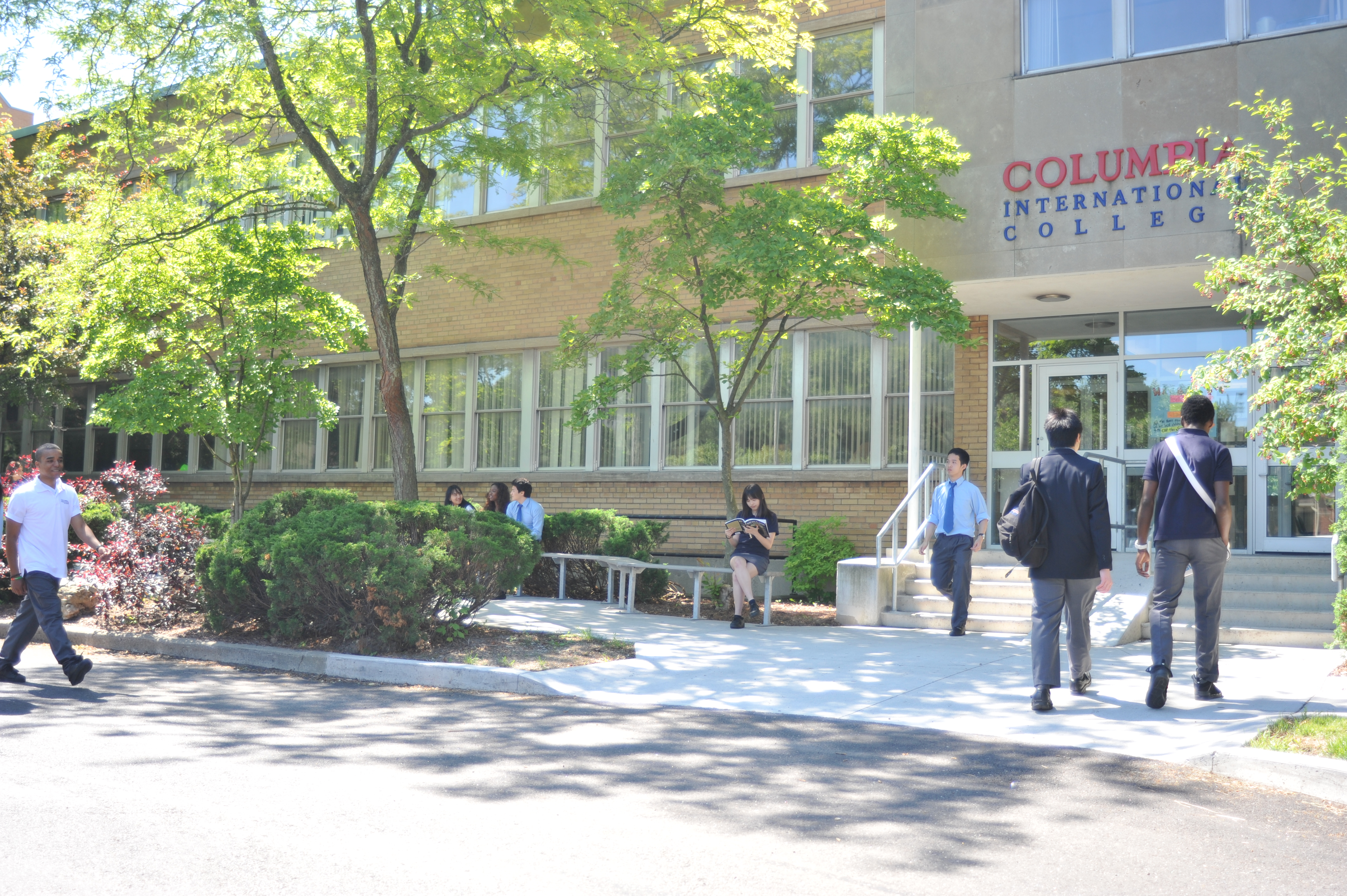 Maple Building, Columbia International College